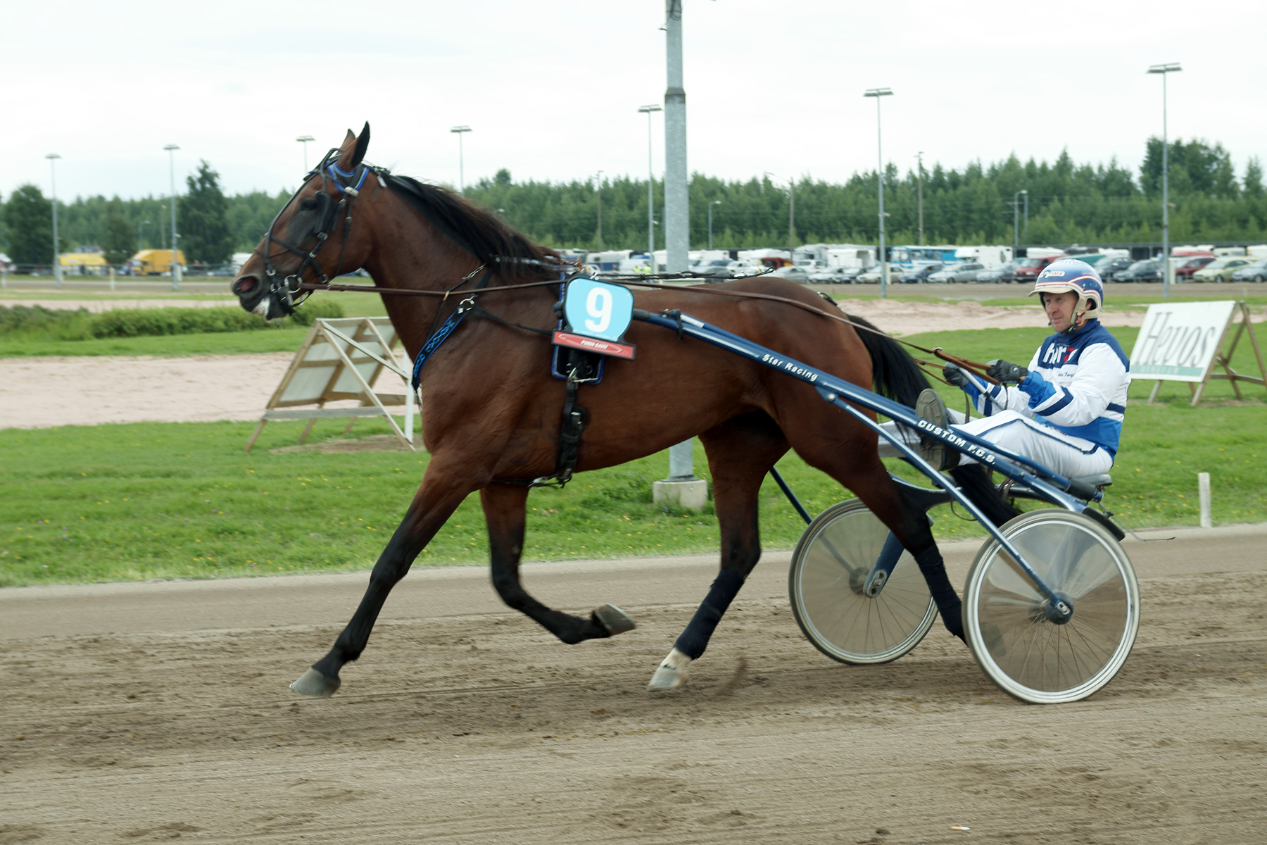 Pekka Korpi harnessing Magical Queen in Pori harness racing track.